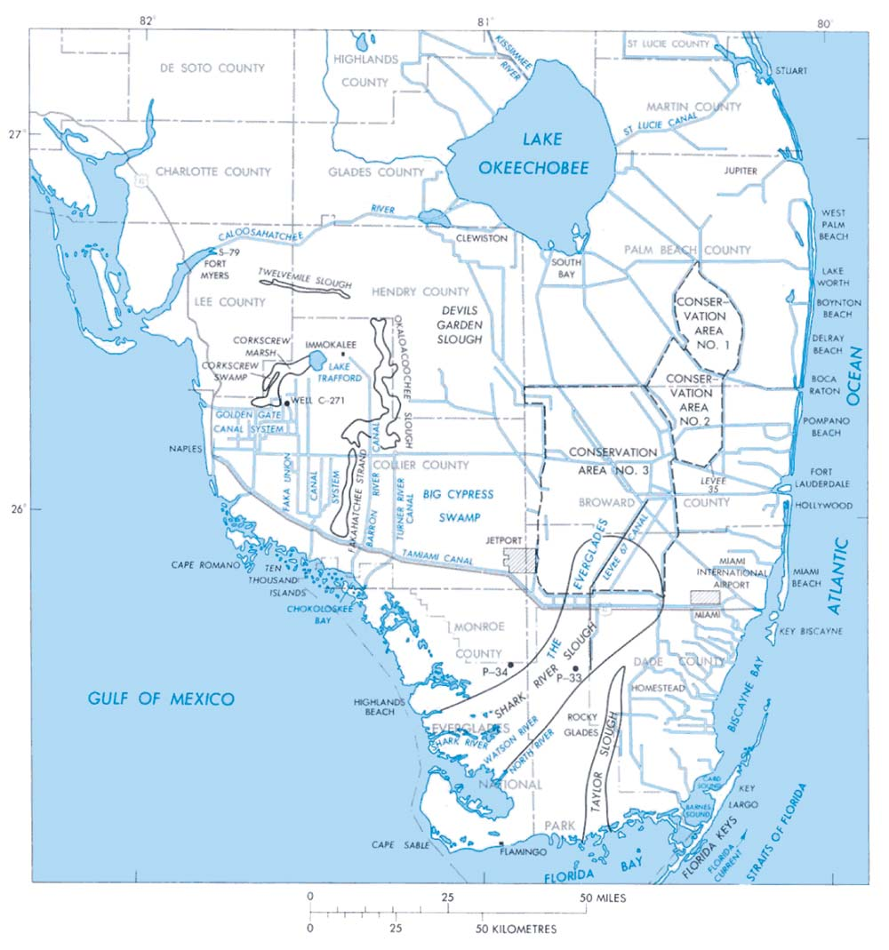 Map of South Florida hydrology and habitats. Indicating natural surface water flow routes supplying the swamps and wetlands, the diversion canals, and the protected areas. Showing: Lake Okeechobee, the Everglades, Big Cypress National Preserve, and other features. Map of south Florida showing features mentioned in the report, "The Environment of South Florida, A Summary Report", by B. F. McPherson, C. Y. Hendrix, Howard Klein, and H. M. Tyus. Geological Survey Professional Paper 1011. 1976